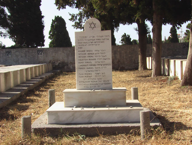 Aliyah_Bet_ship_Pancho_memorial. Credit: Courtesy of Arie Darzi to memorialize the Jewish community in Greece.